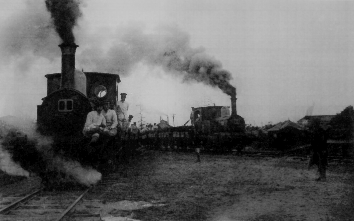 0-6-0T steam locomotives No. 1 and 2 next to Nakanocho Station on the Choshi Sightseeing Railway (now part of the Choshi Electric Railway)